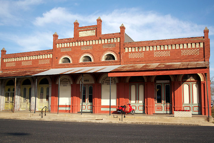 The S. T. Schaefer Building on North Main Street in Schulenburg, Texas.